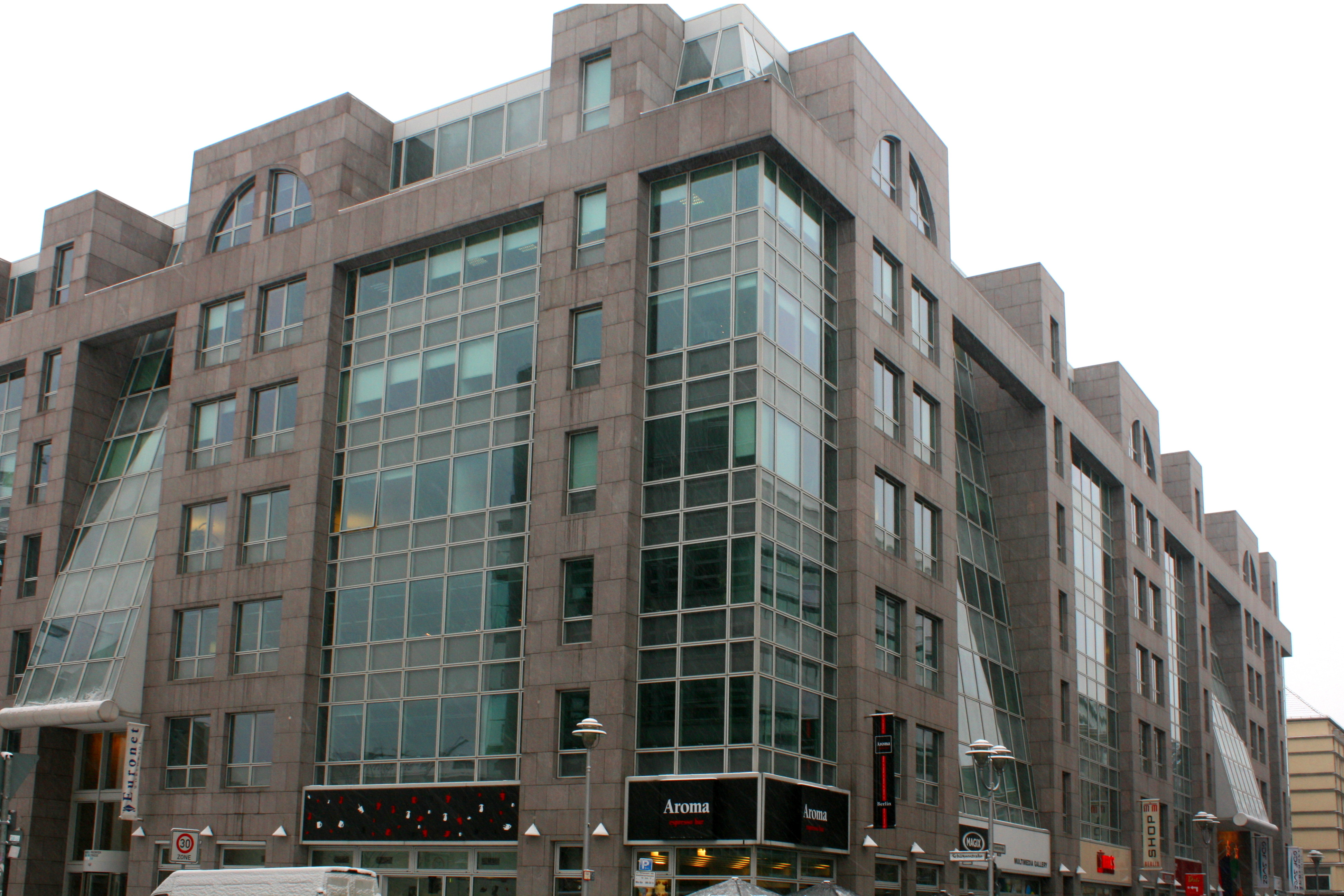 Philip-Johnson-Haus (Friedrichstraße, Berlin) seen from South-East